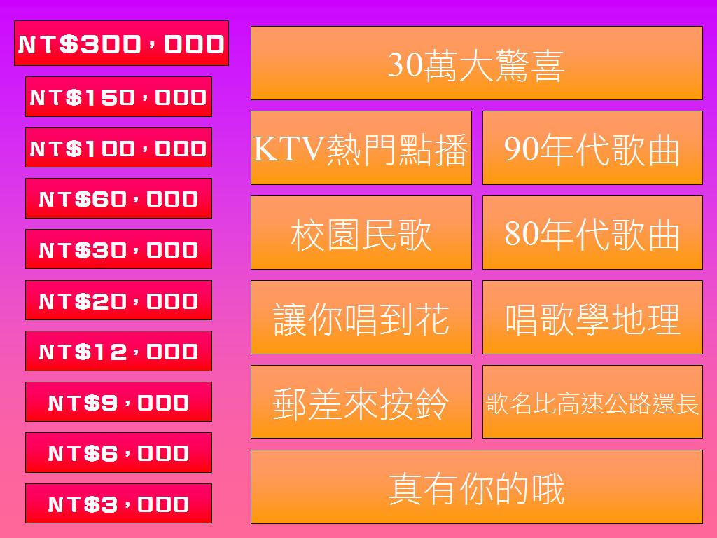 Screen Shot Simulation of the Million Star TV Show